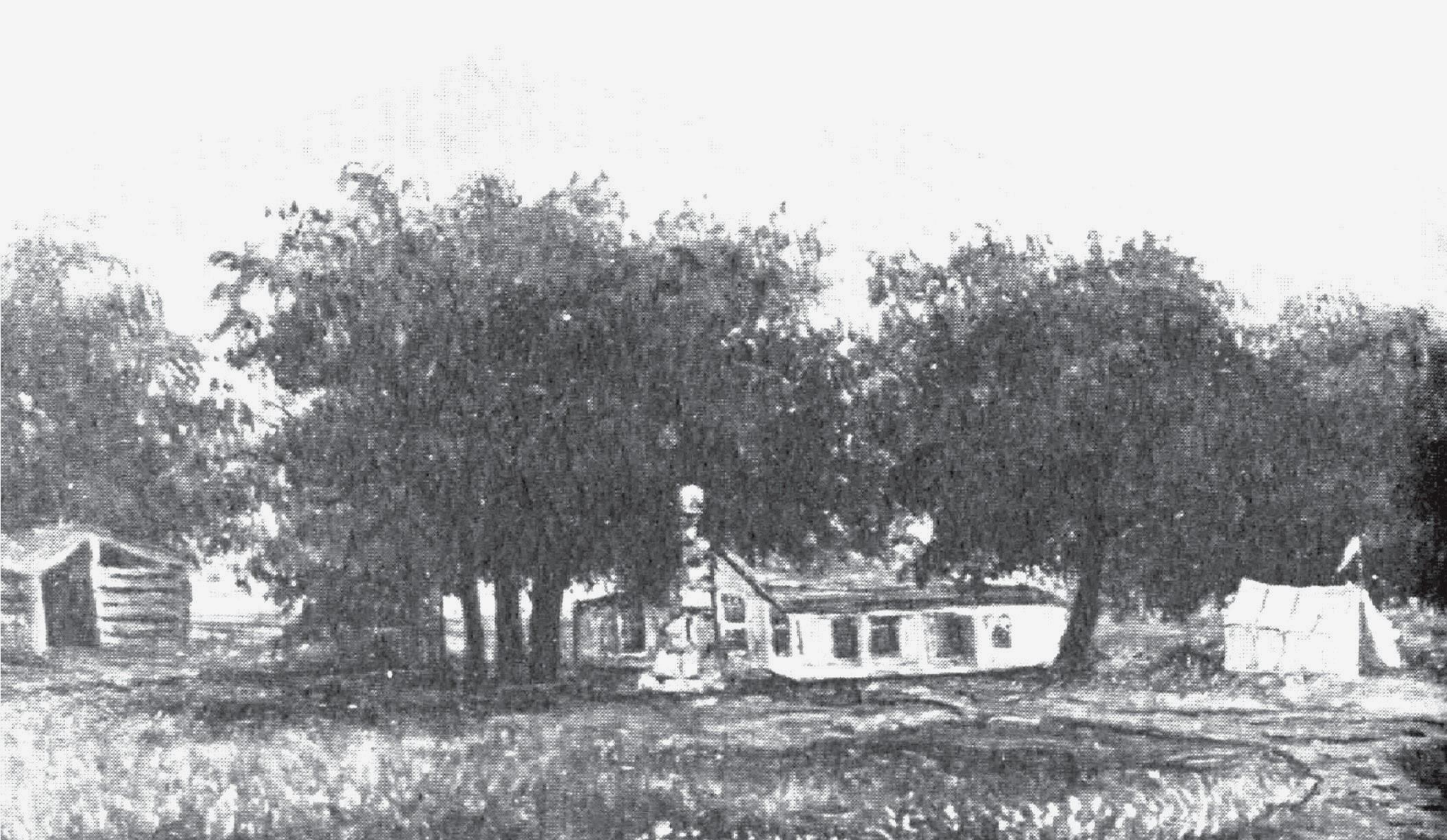 1870s painting by Francis Newbury, wife of Egbert Starr Newbury, which depicts the family house. The Newbury Park Post Office was housed in the tent seen at the right.